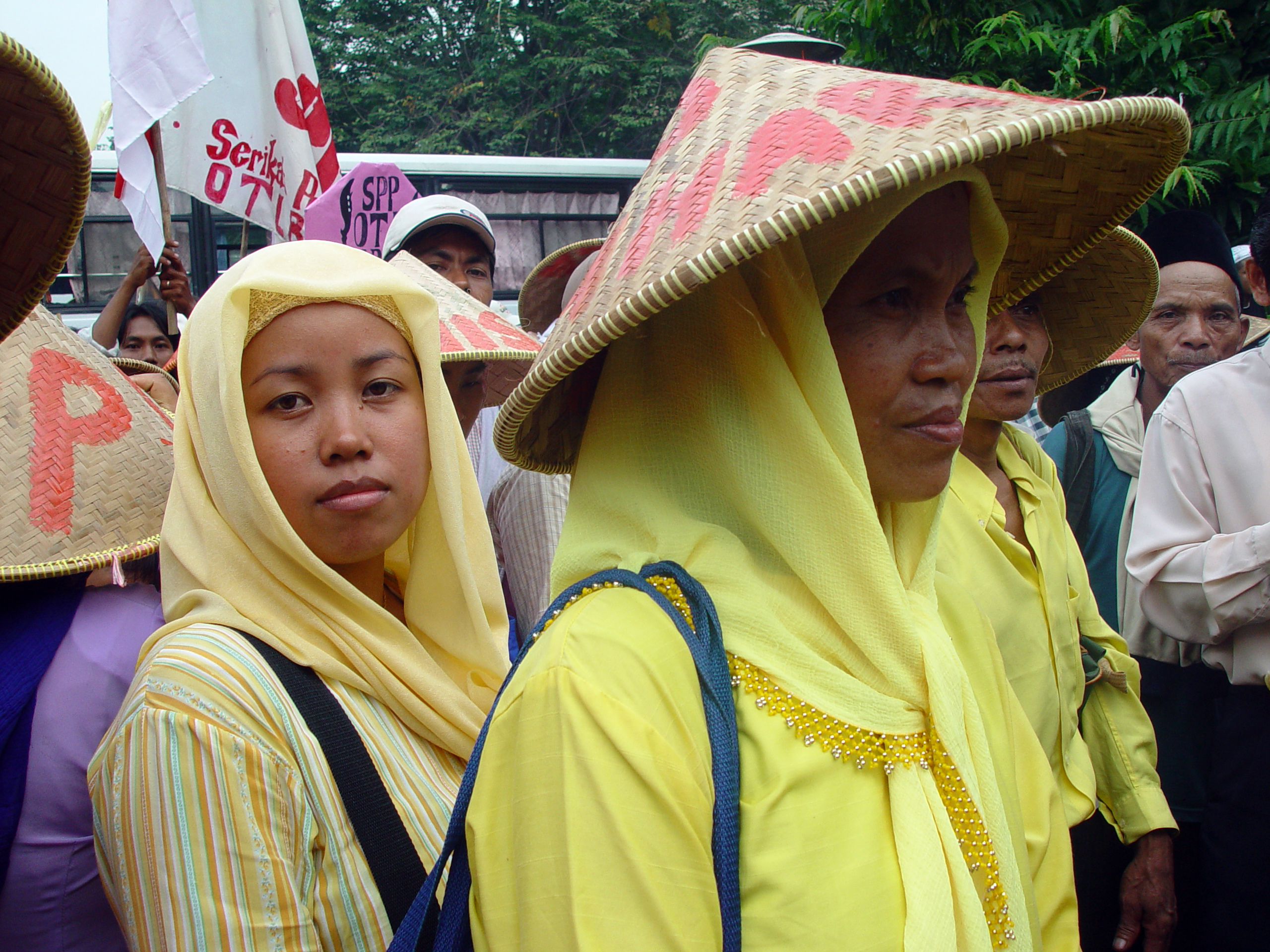 Farmer rights protest in Jakarta, Indonesia.